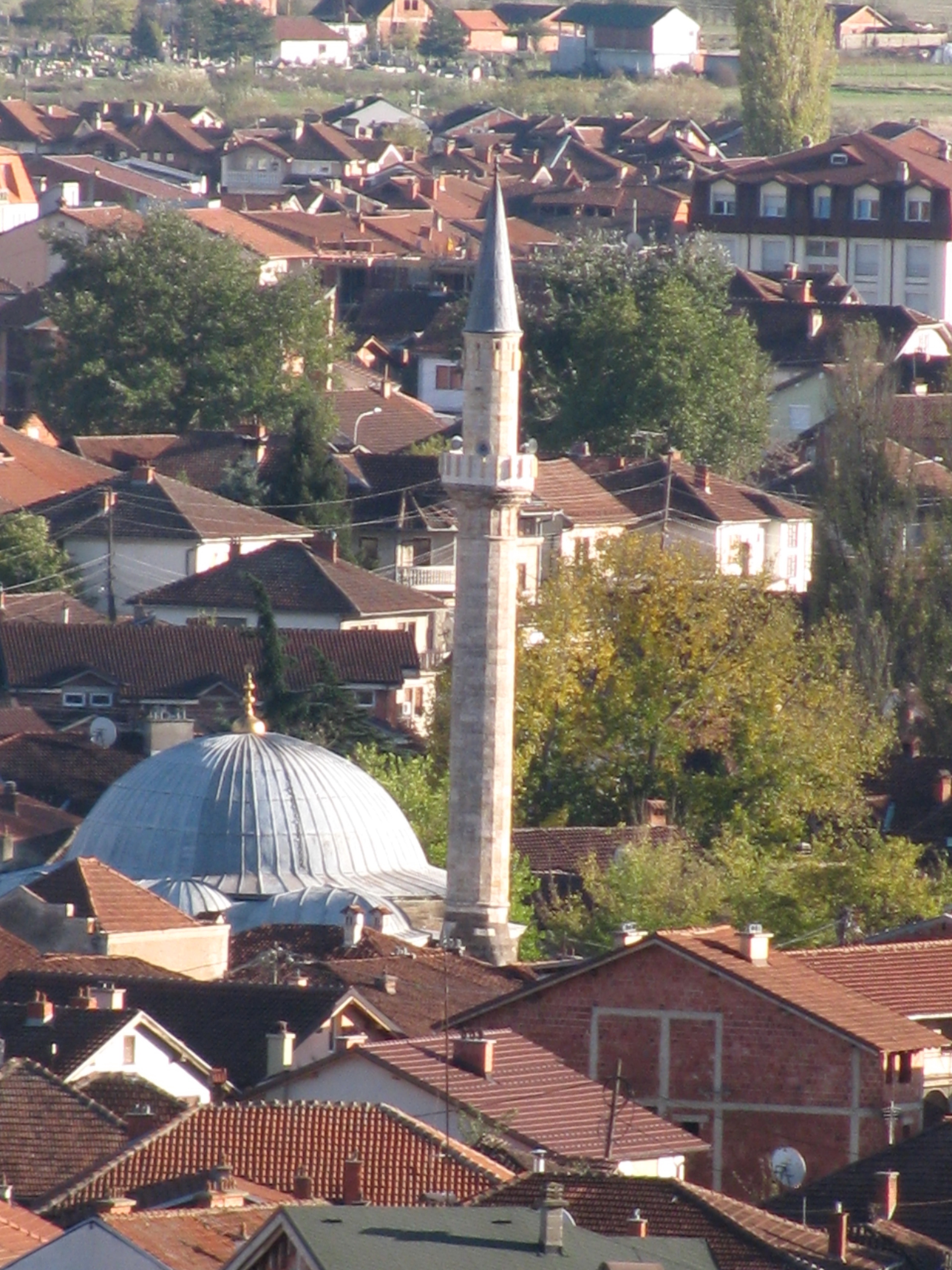 Hadum mosque from Çabrat hill.